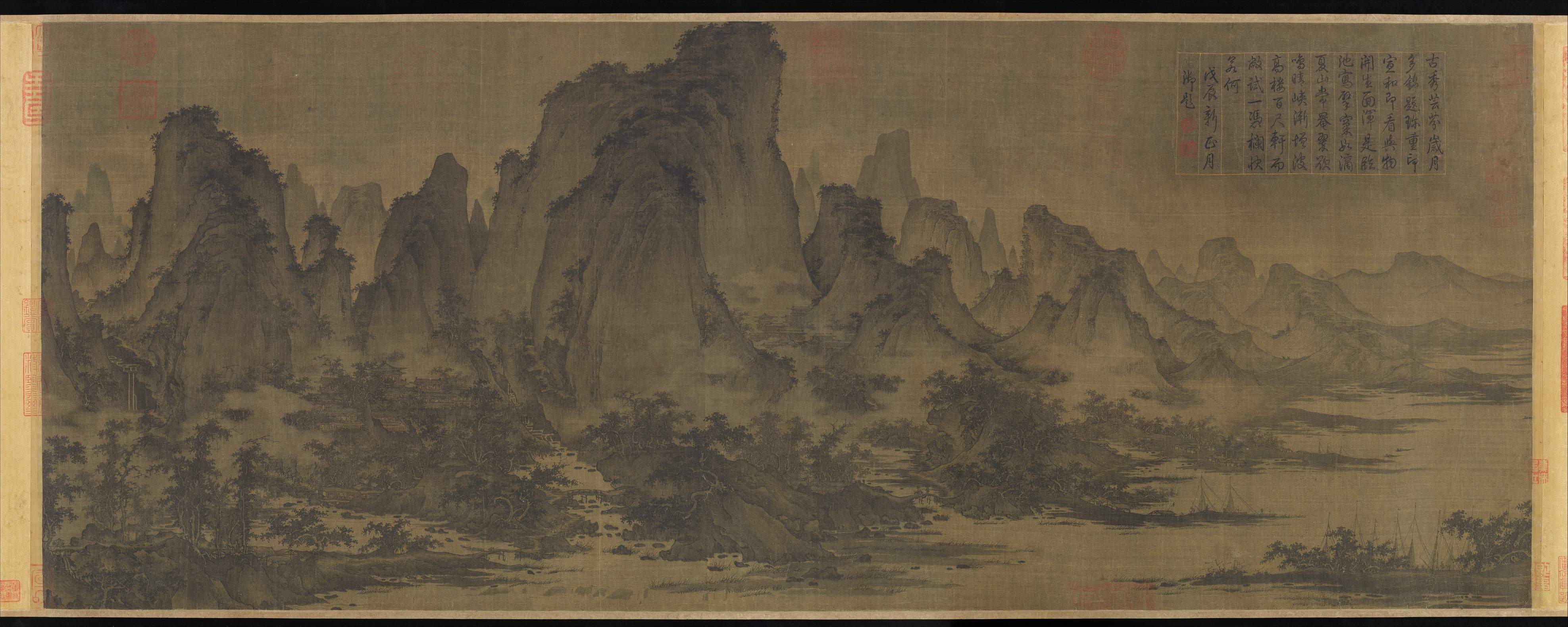 China; Handscroll; Paintings